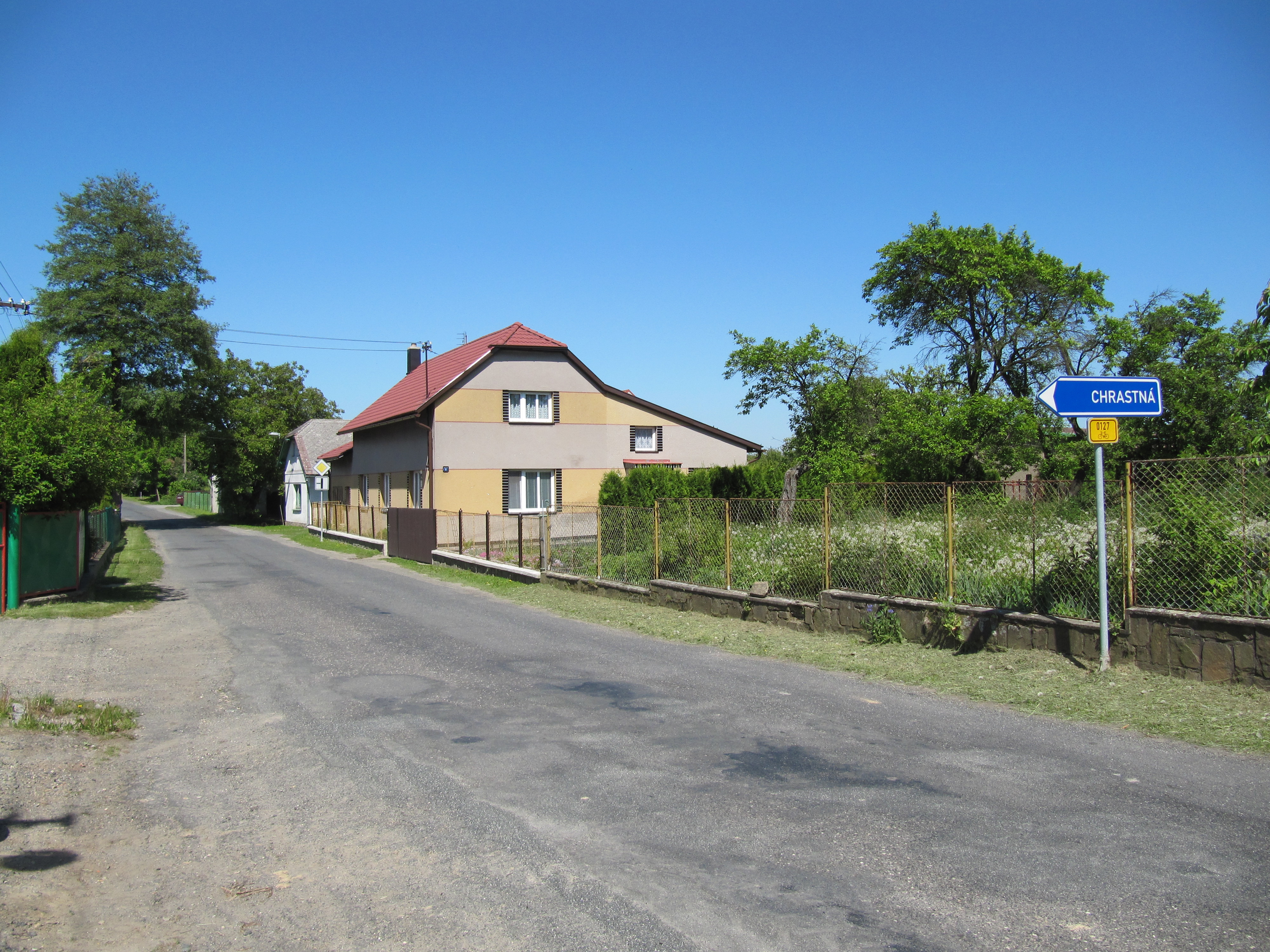 Úžice in Kutná Hora District, Czech Republic, part Smrk.